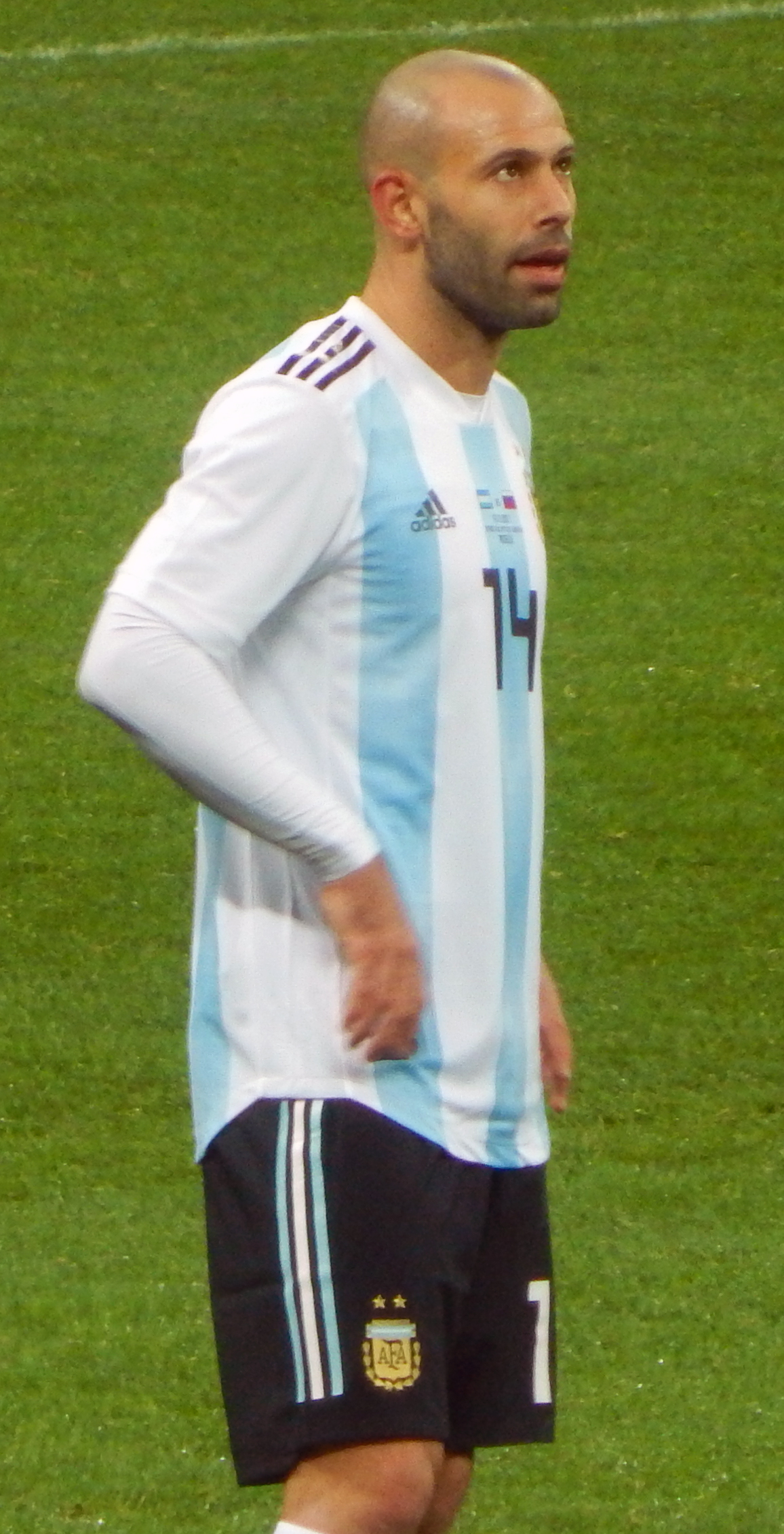 A friendly match between Russia and Argentina in Moscow, Luzhniki stadium, on November 11, 2017.